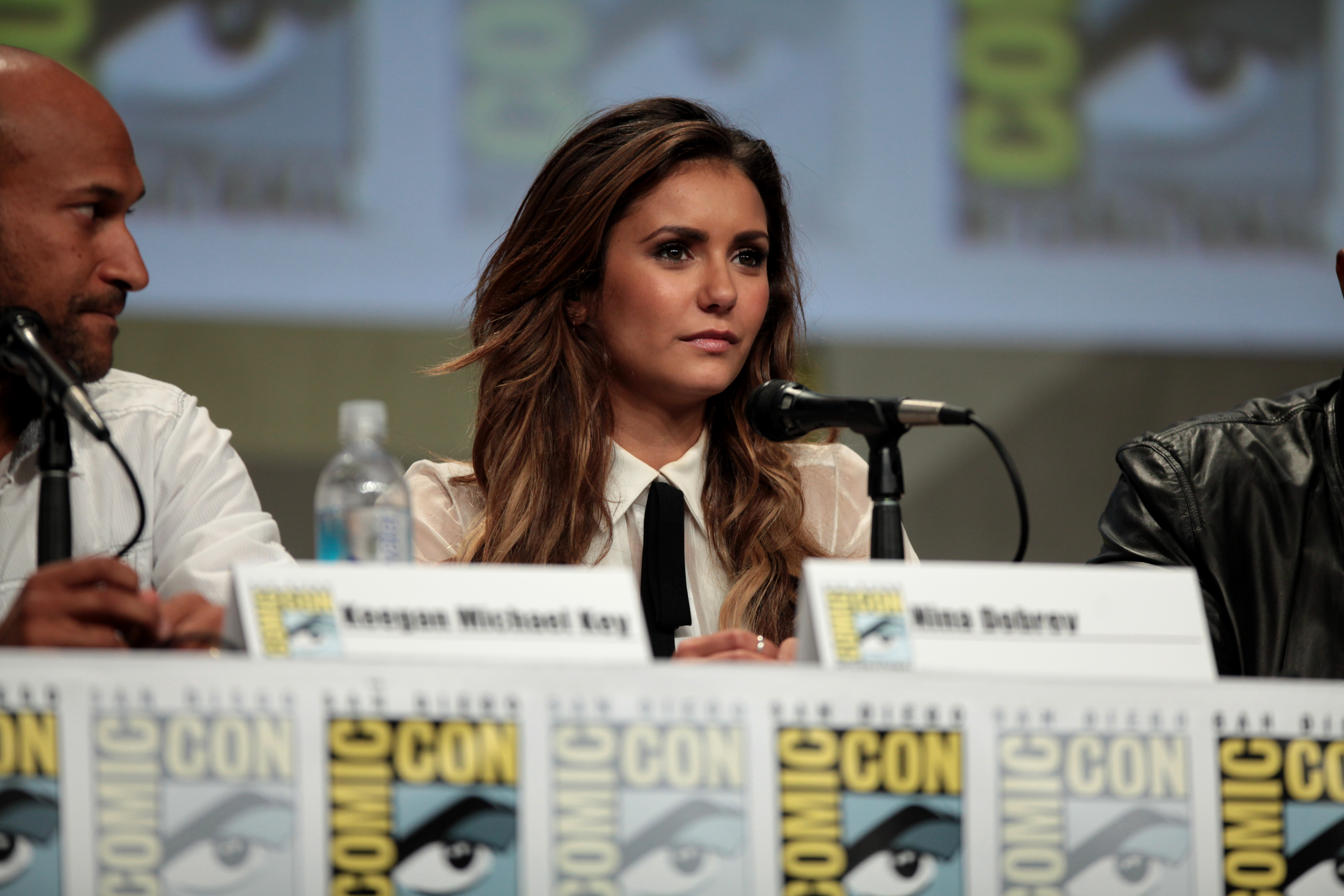 Nina Dobrev at SDCC 2014 for "Let's Be Cops"